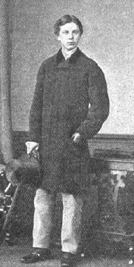 Eaton Faning in his youth.